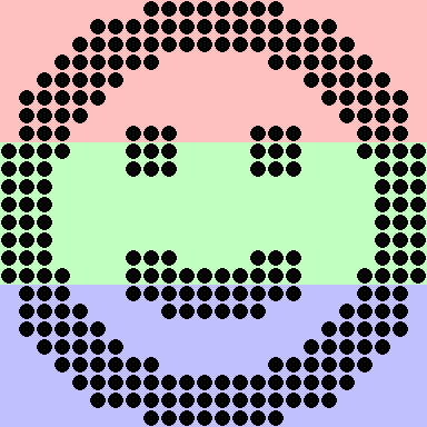 Example raster graphic supposed to explain how to print graphics using ESC/P commands